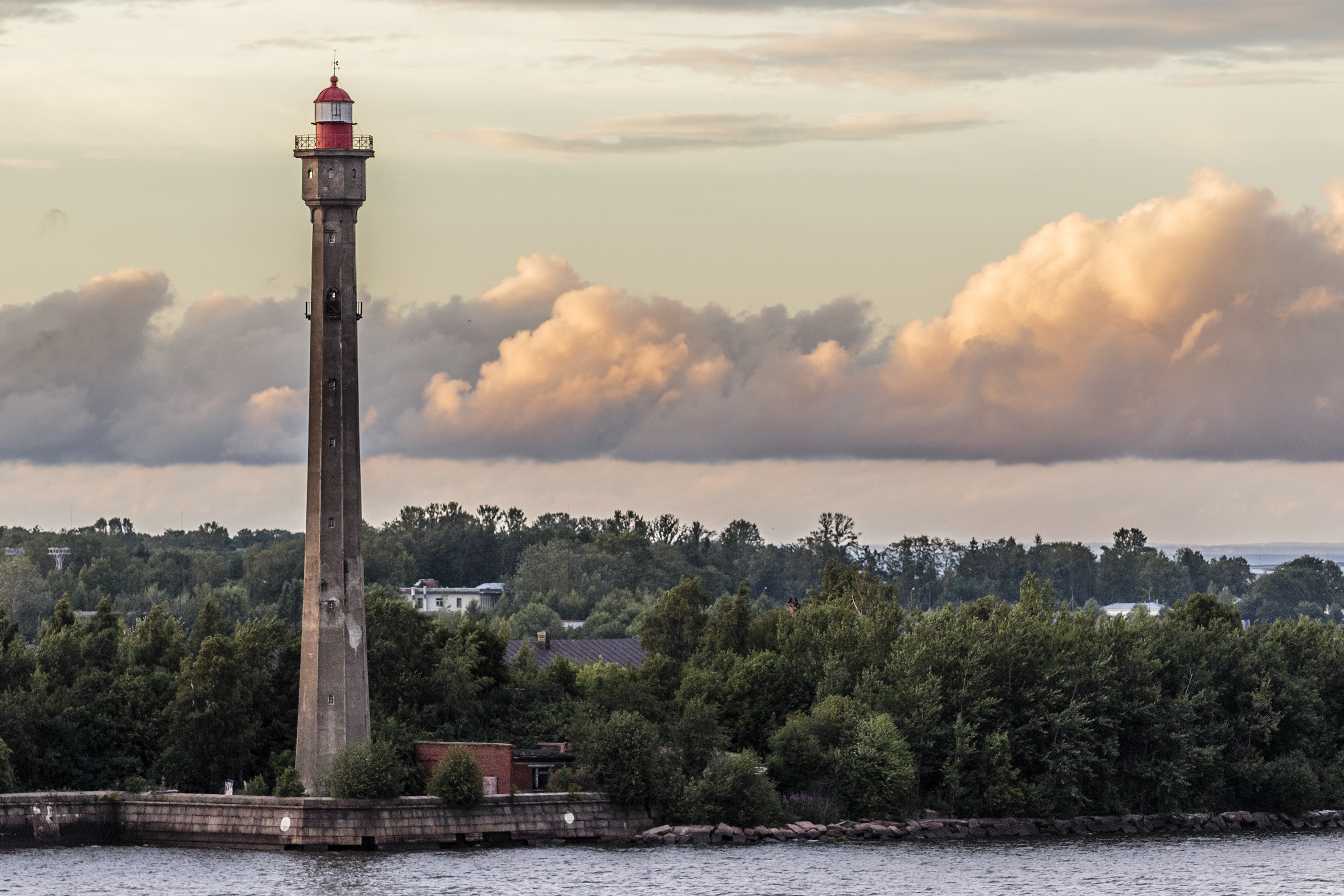 Lighthouse in Kronstadt, Saint Petersburg, Russia